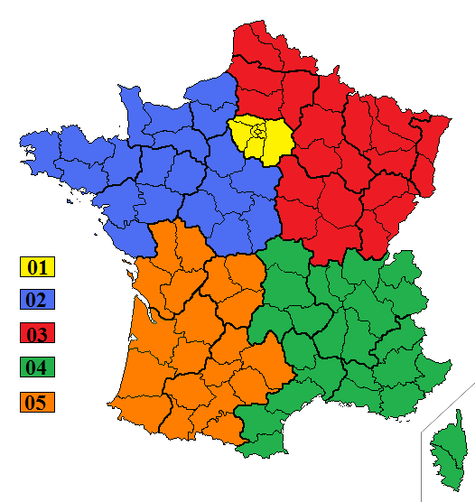 Phone division of metropolitan France since 1995